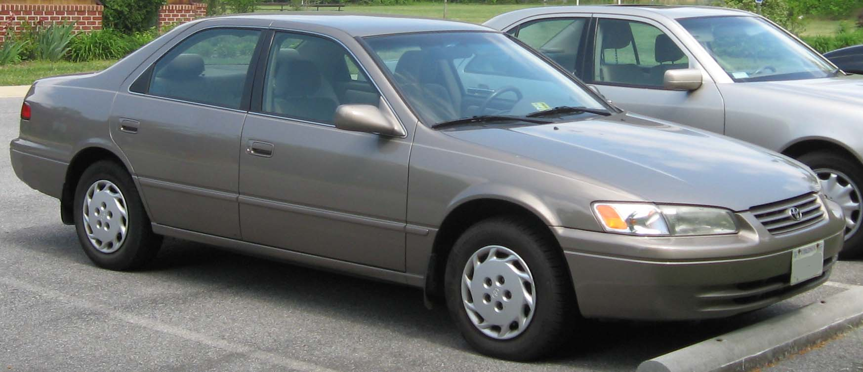 1997-1999 Toyota Camry photographed in USA.